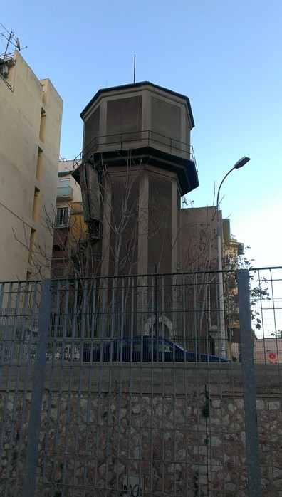 pyrgos